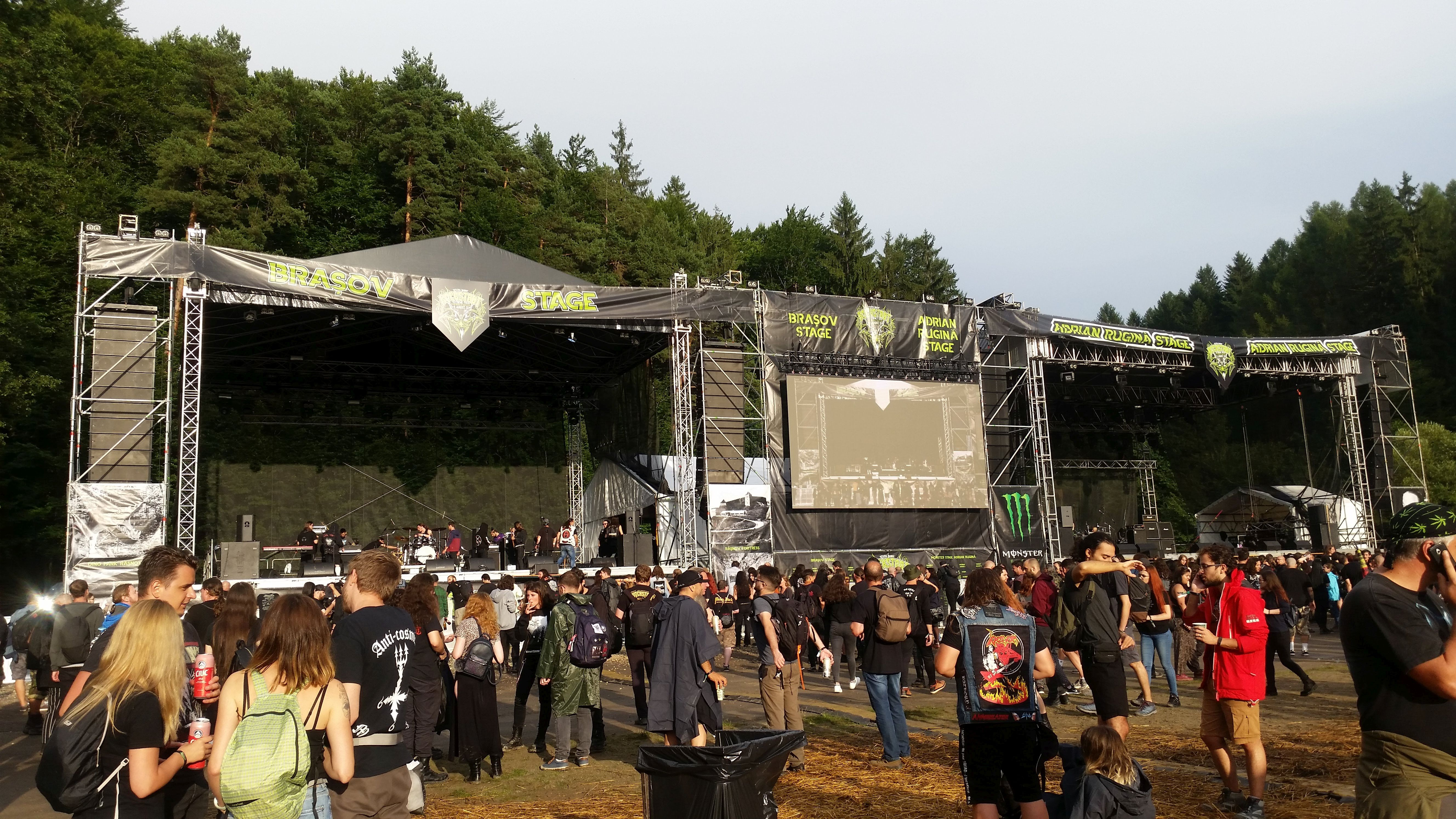 The two stages of Rockstadt Extreme Fest 2019 at Râșnov, Romania